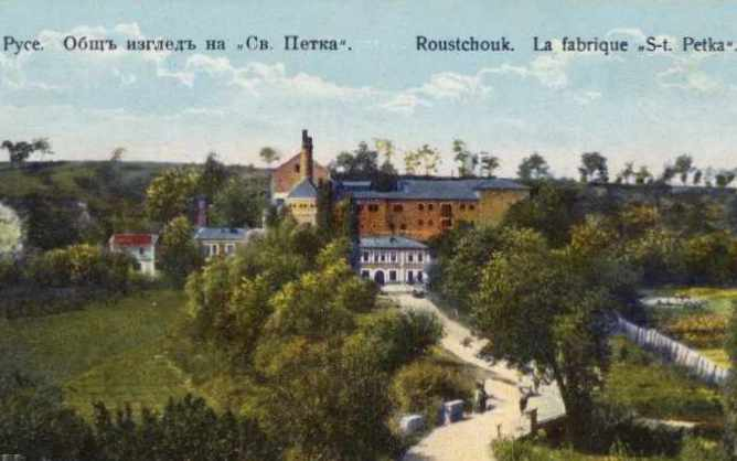 Brewery St Petka